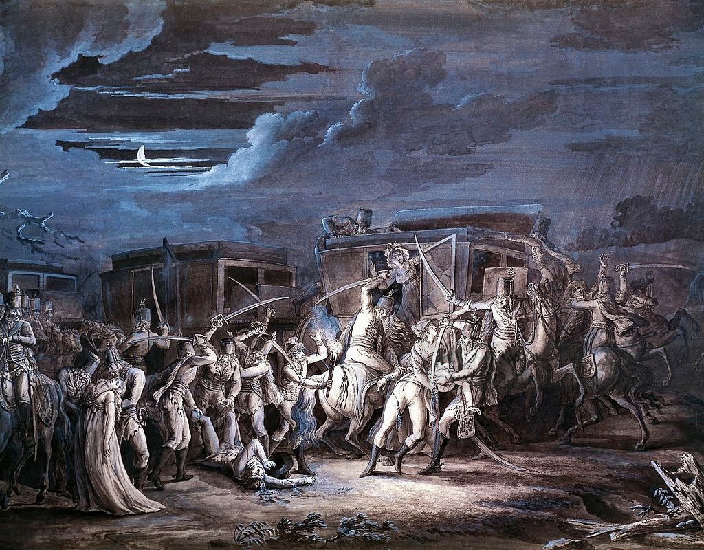 The assassination of french diplomats in Rastatt. 19th Century engraving.